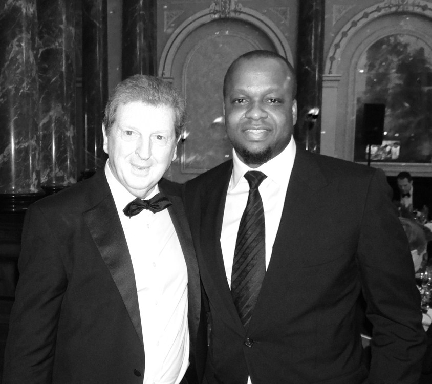 Igho Sanomi and Roy Hodgson, England Football Coach at Bobby More Fund for Cancer Research Event, London